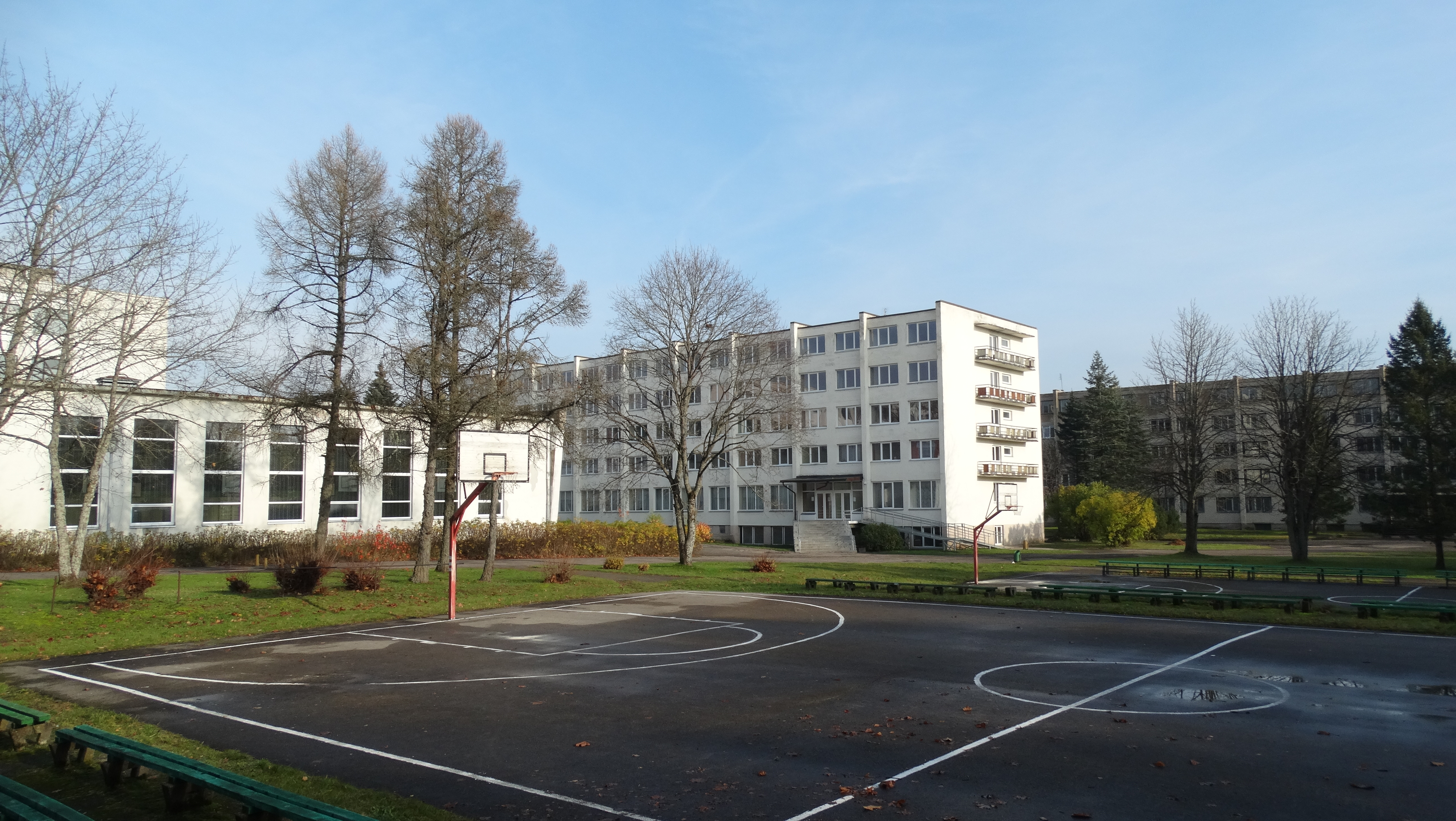 Technology and business school, Smalininkai, Jurbarkas District, Lithuania